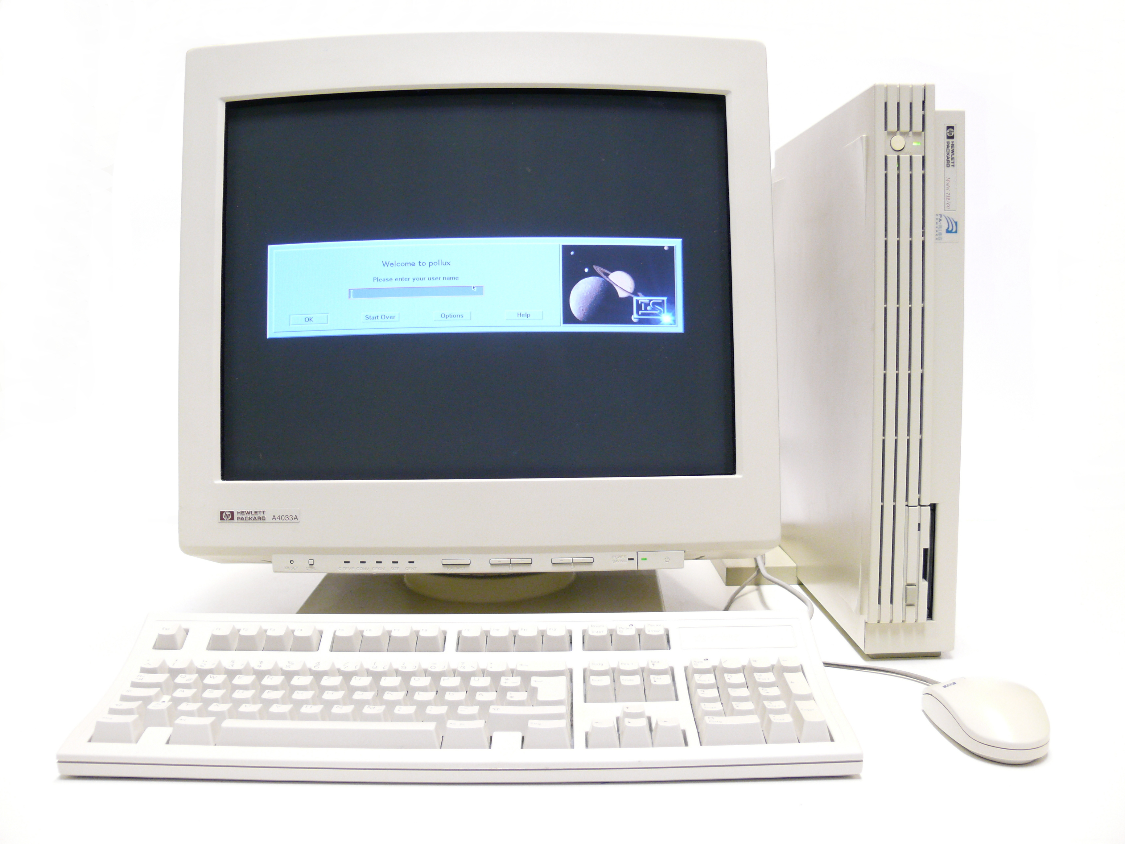 Hewlett-Packard HP9000 Unix Workstation Series 700 HP712, Model 712-60, PA-RISC 7100LC CPU - 32 Bit - 60 MHz, max. 128 MByte RAM, SCSI2-SE, 10 MBit LAN, 16 Bit Audio, PS2, 8-Bit Graphics, HP A4033A 20inch color CRT, HP-UX 10.20, CDE